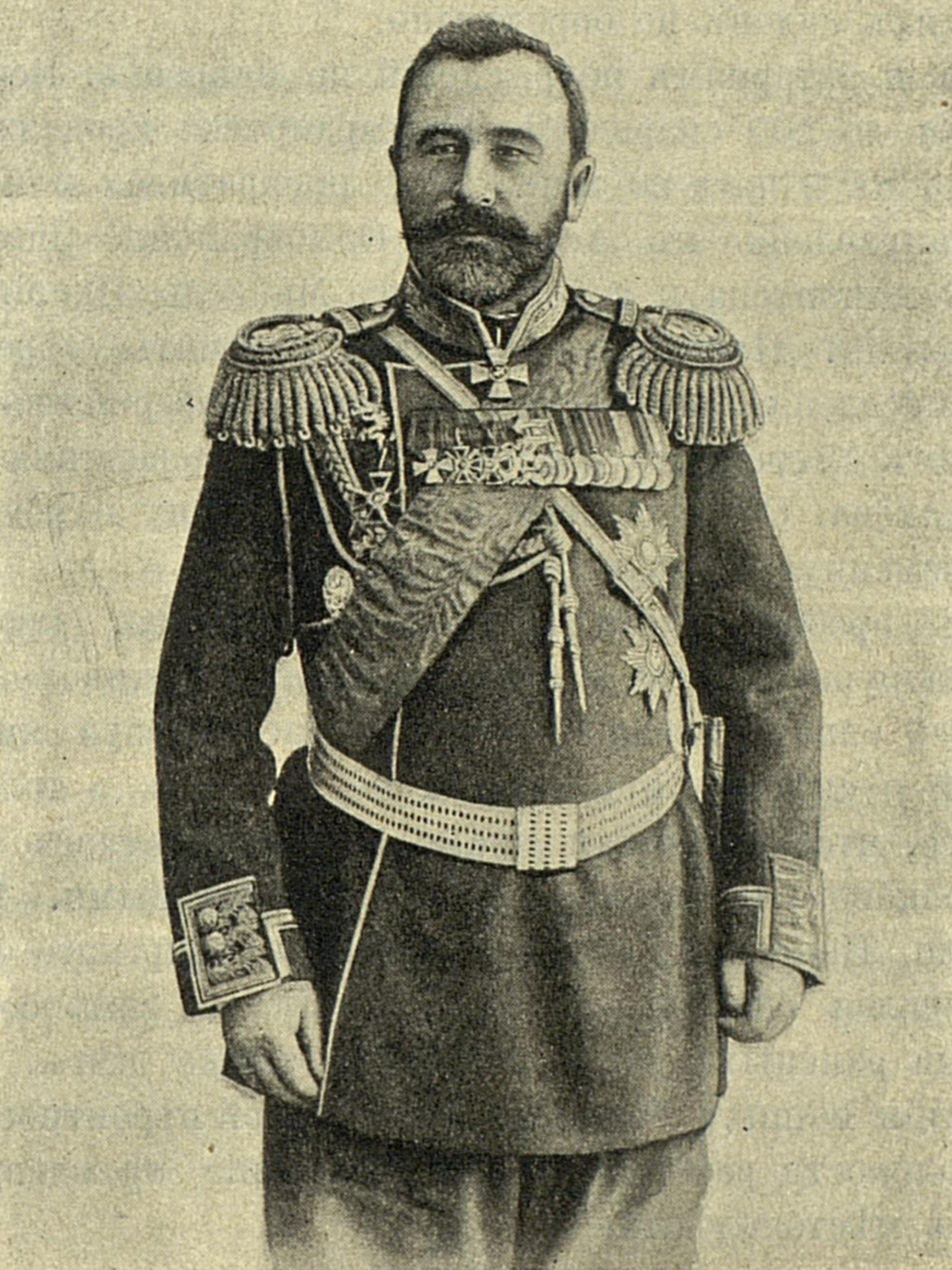 Aleksey Kuropatkin